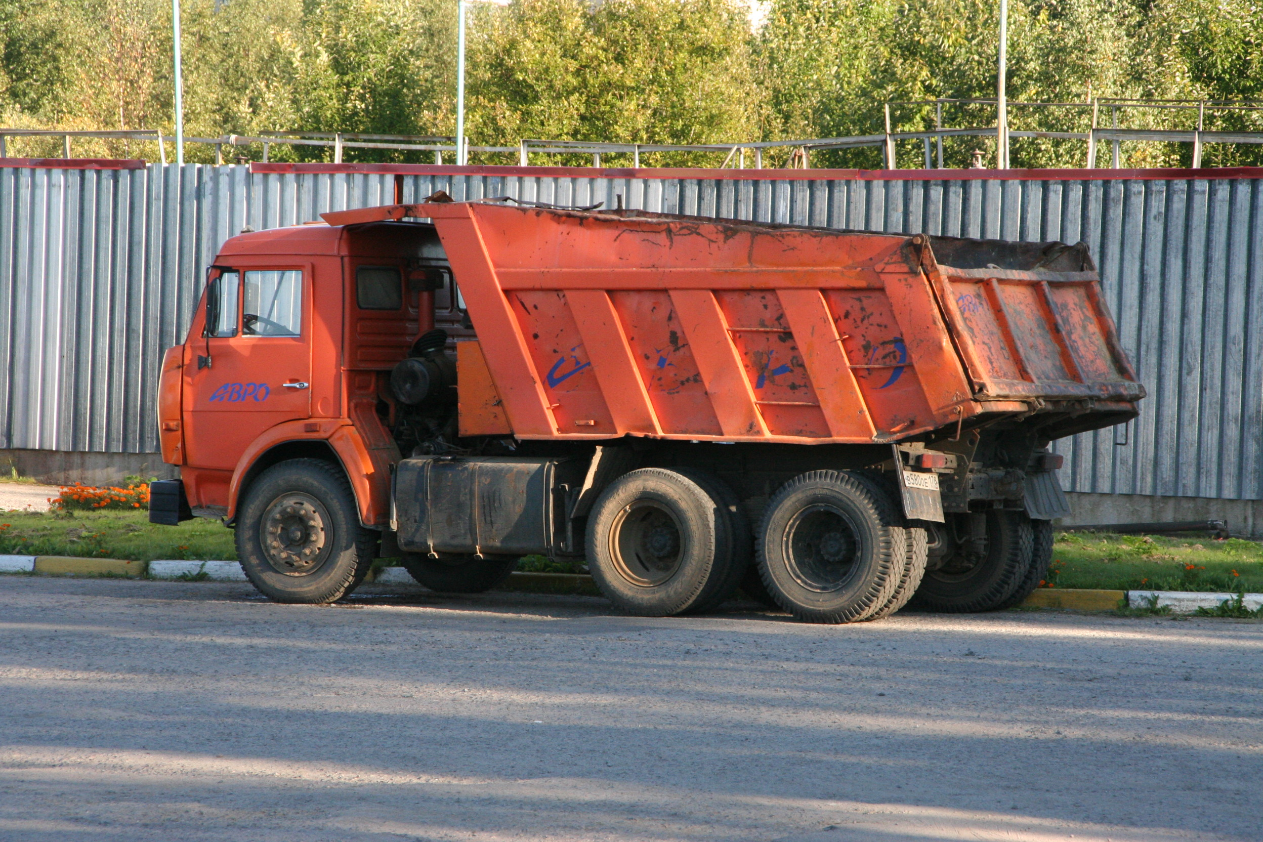 KamAZ-65115